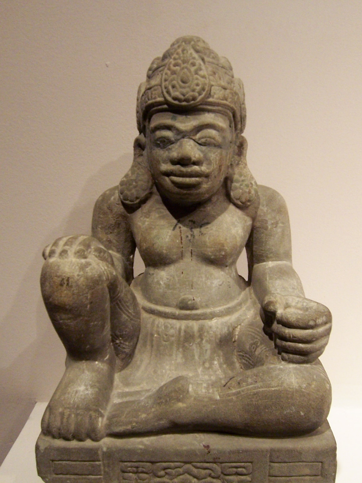 I took this photograph. I release it into the public domain. It is of a statue of a deva (Shiva?) or of a Dharmapala (Buddhist guardian of the law) from Champa. It is of the 10th century Dong Duong Style.